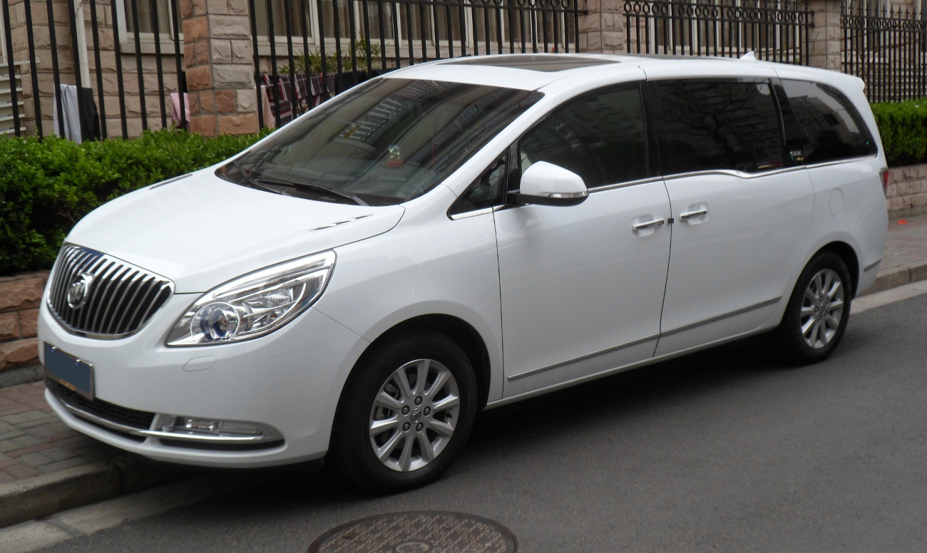 Buick GL8 II photographed in Shanghai, China.